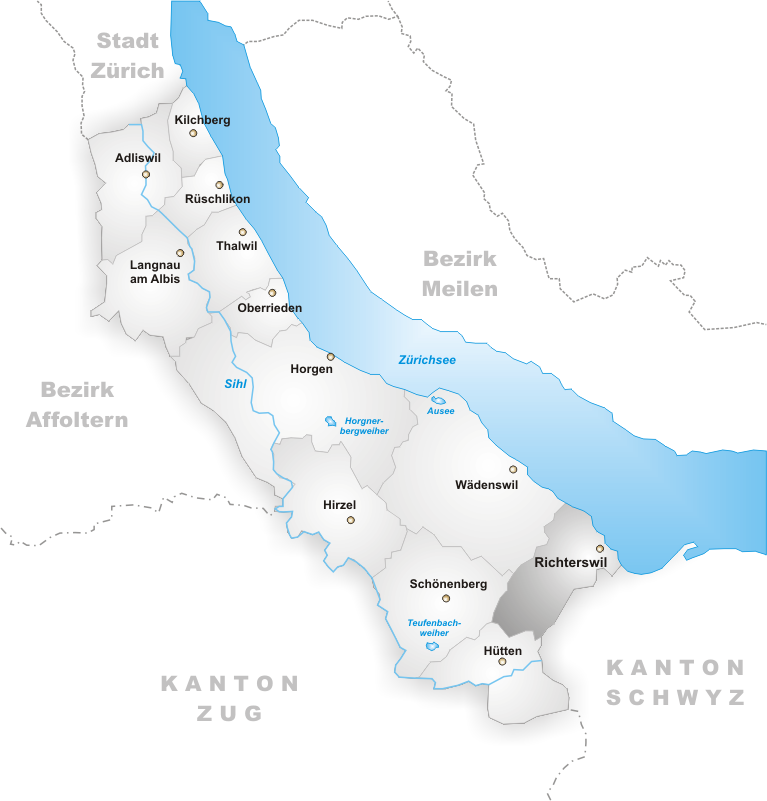 Municipality Richterswil